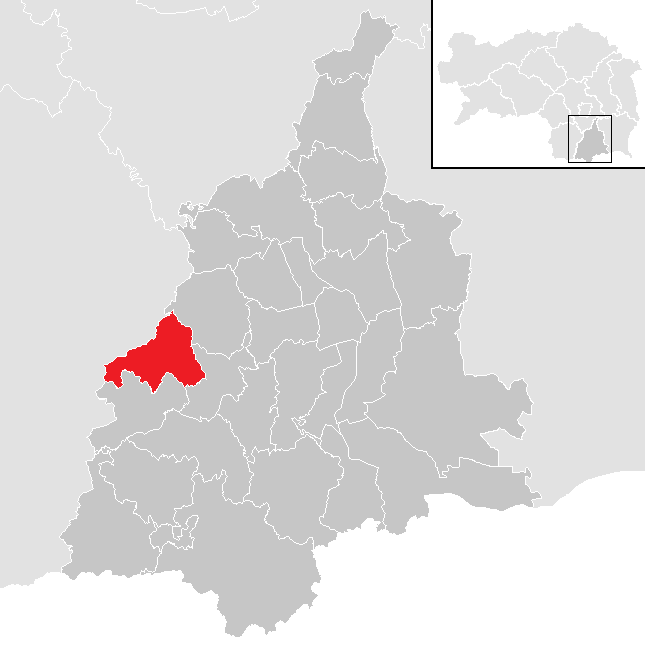 District Leibnitz